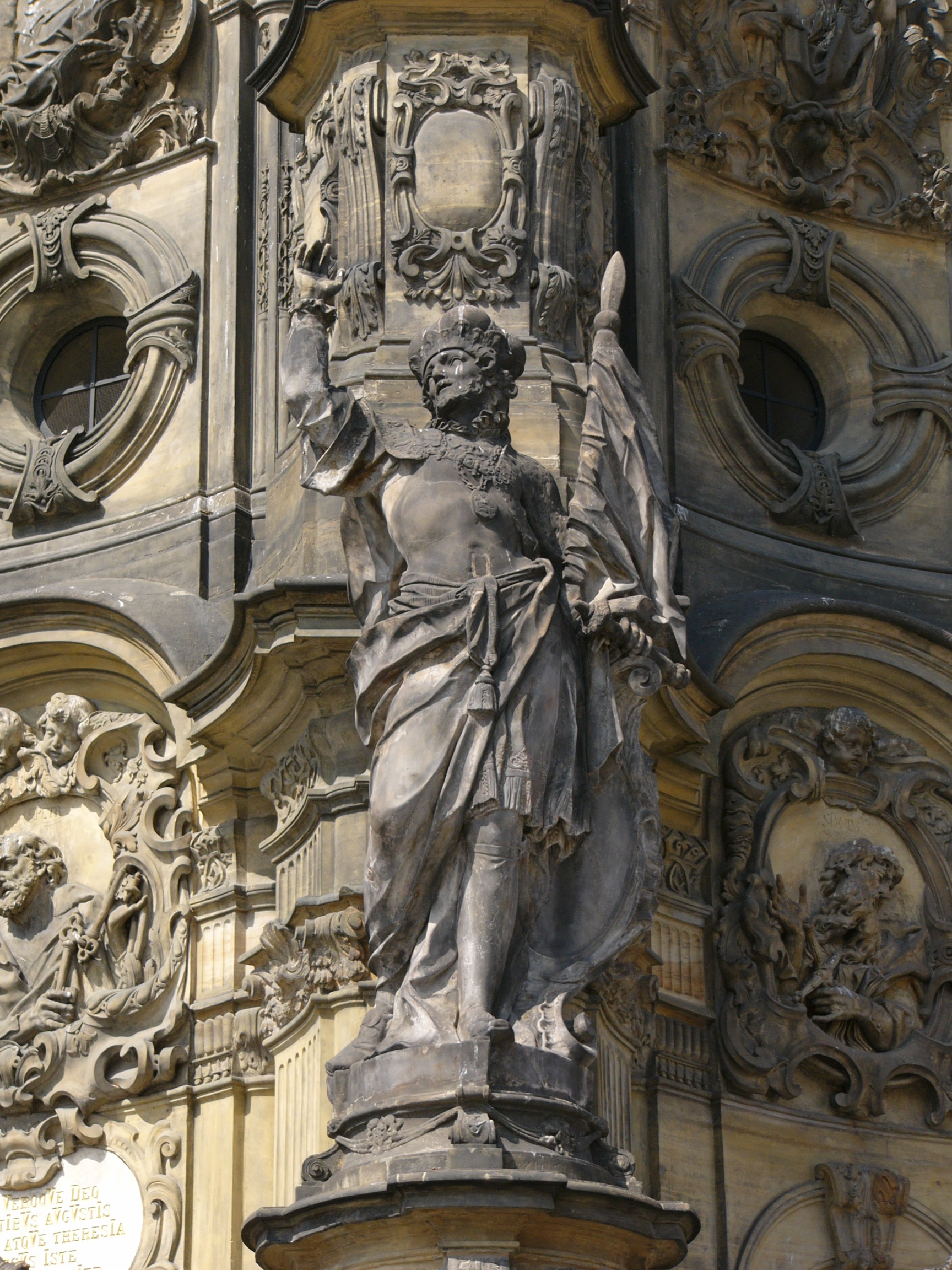 Statue of Saint Wenceslaus I, Duke of Bohemia on the Holy Trinity Column in Olomouc in Olomouc (Czech Republic).